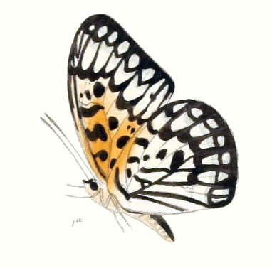 Neurosigma doubledayi